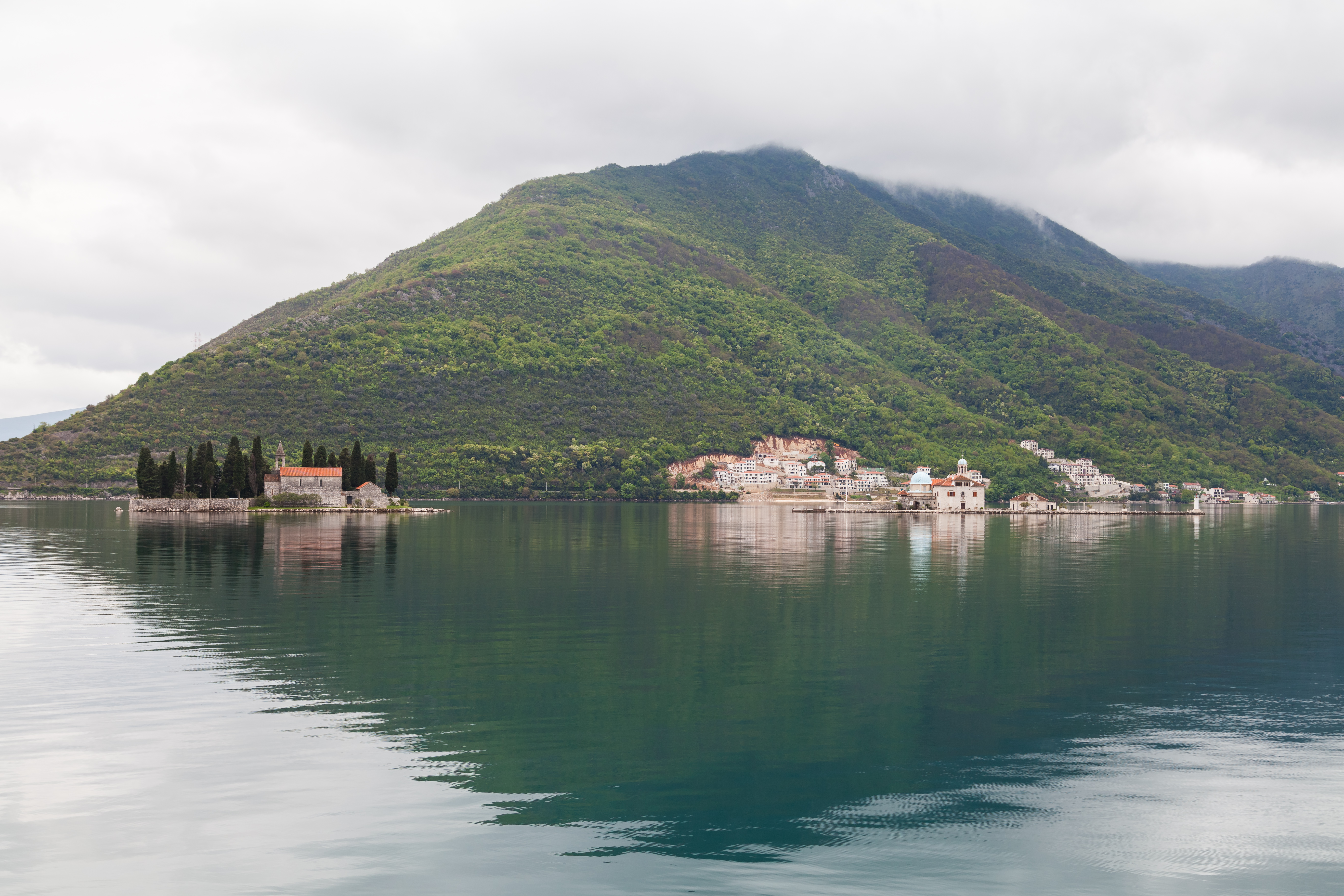 Our Lady of the Rocks and St George Monastery, Perast, Bay of Kotor, Montenegro